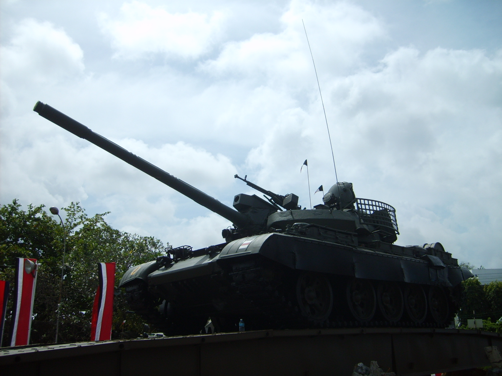 A T55AM2 of the Sri Lanka Armoured Corps on display at the Army 60th Anniversary Exhibition